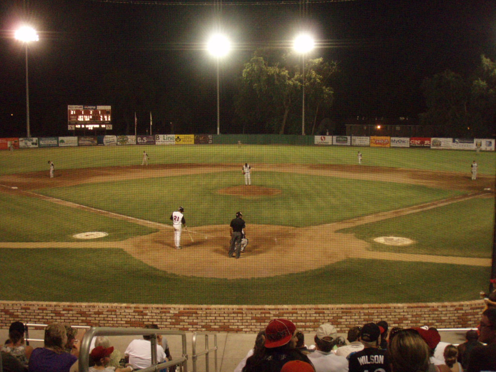 This is a picture of the interior of the Nettleton Stadium field taken in the evening during the Chico Outlaws game against the Tucson Toros in June 2009. I reliquish all rights to the use of this photo